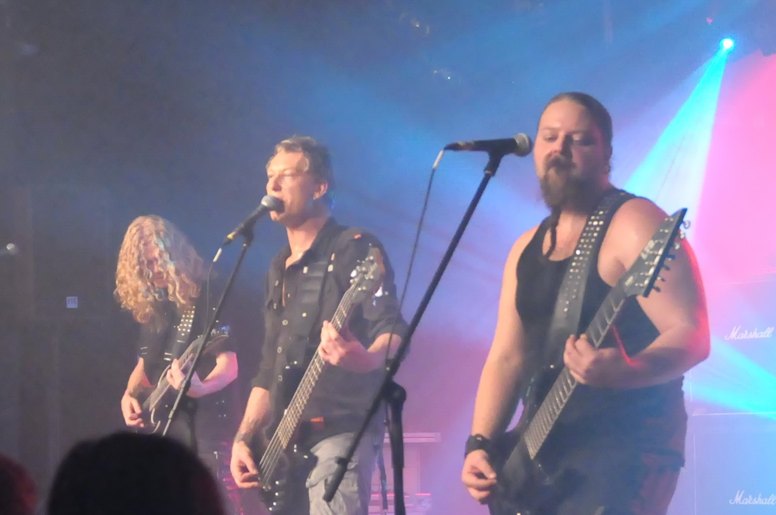 Iron Fire, Börsencrash Festival 2014, Wuppertal